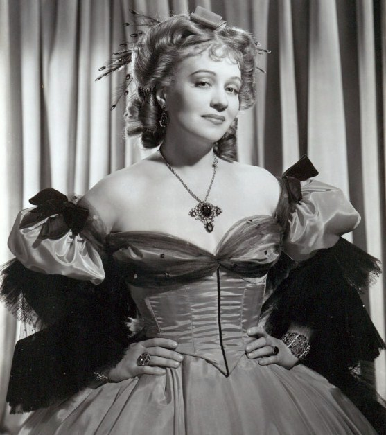 Ona Munson in Gone with the Wind - publicity still (original image cropped : see source)